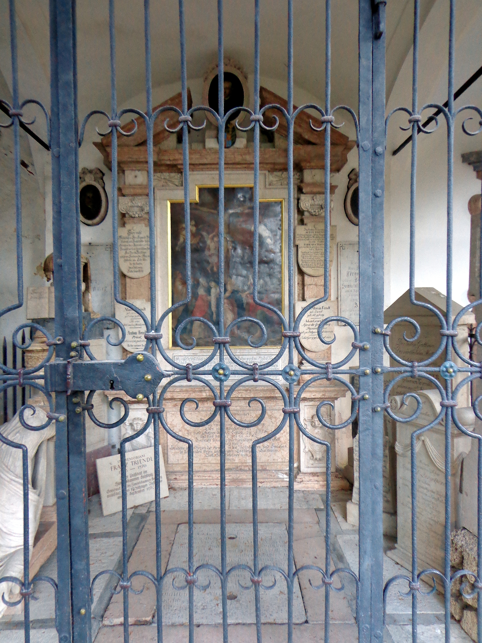 Crypt 39 (Petersfriedhof Salzburg): tomb of the Haffner, Fendt, Lergetporer and Triendl families